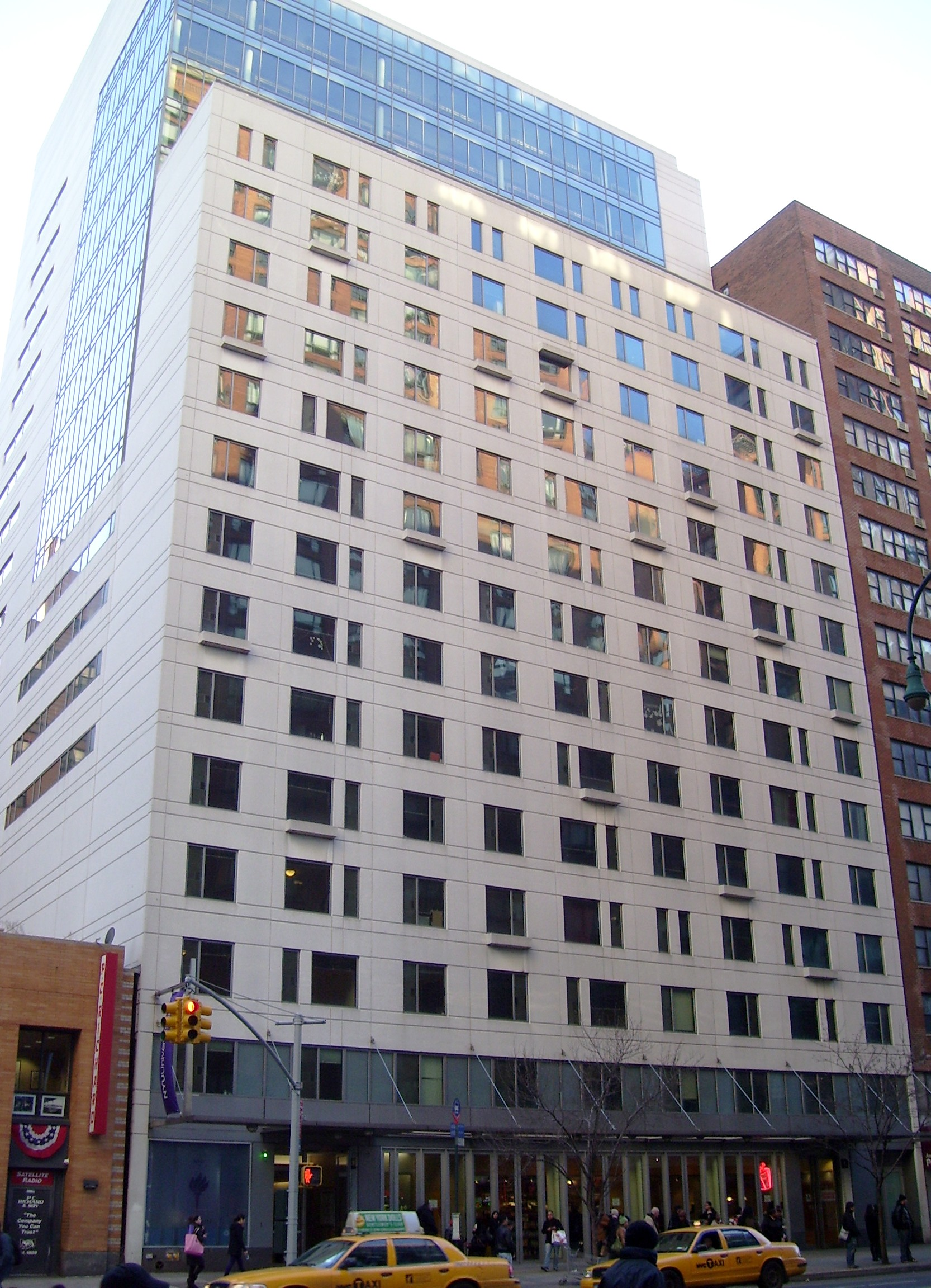 The University Hall dormitory of New York University at 106 East 14th Street between Third and Fourth Avenues, across from Irving Place, was built in 1998 on the site of Luchow's Restaurant. (Source: NYC GIS map)